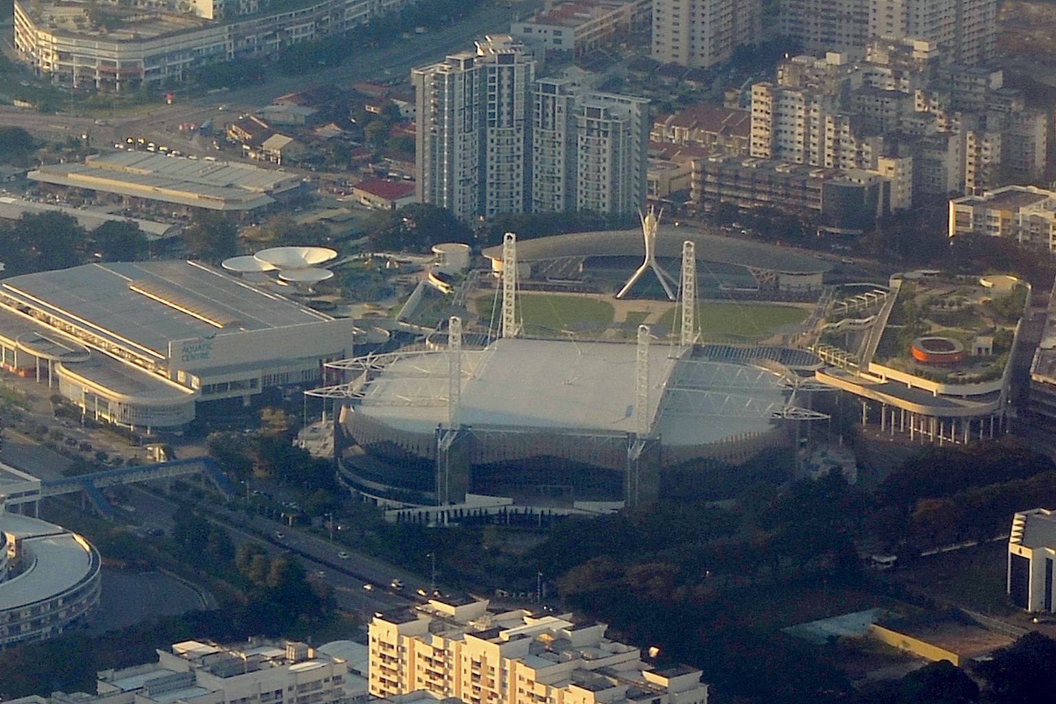 Aerial view of the SPICE Arena from the south east.